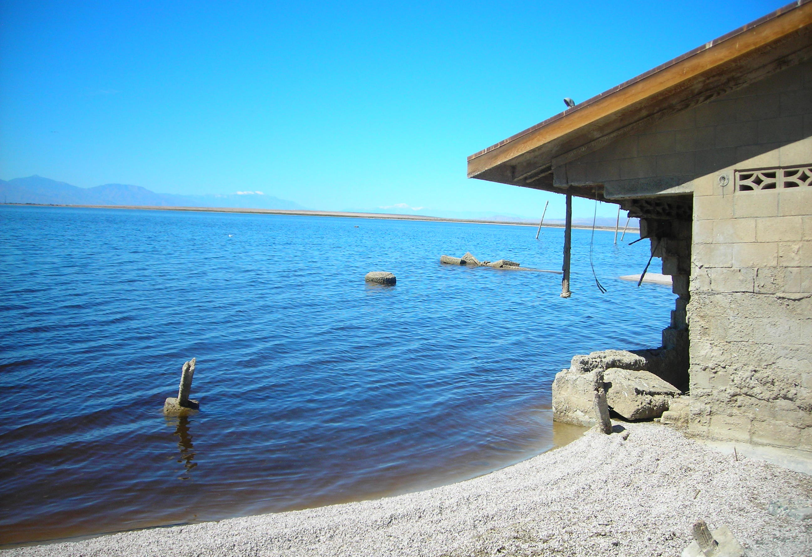 Salton Sea viewed from the East shore near Niland